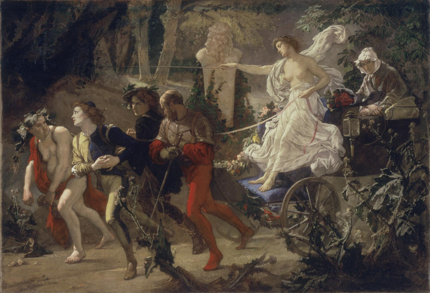 The painting is a satire of decadent French society, and depicts a bare-breasted courtesan driving a carriage pulled by (from left to right) a naked elderly man representing over-indulgence; a troubadour representing youthful love; a young student who is writing, representing the educated nobility insensible to daily life's realities, and an old soldier filled with regret. The old woman sitting at the back of the carriage may symbolize the courtesan's future, while the thorny plants along the road indicate the difficulty of their journey. (See the reference below.)